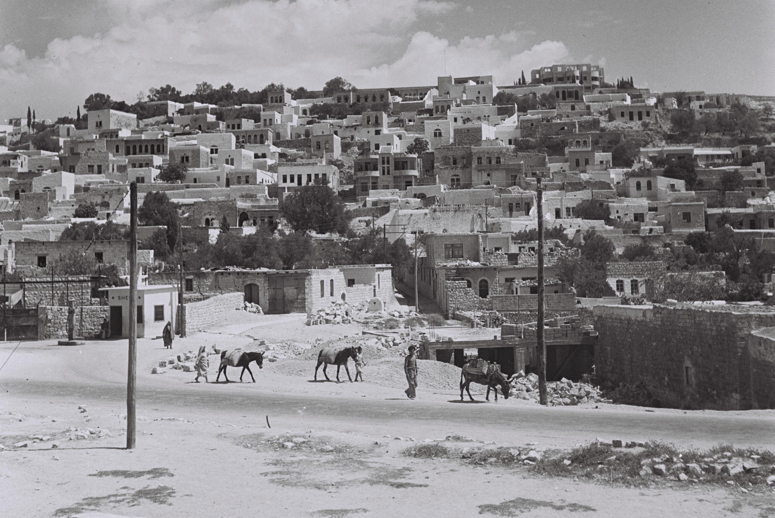 THE ARAB PART OF SAFED. הרובע הערבי בעיר צפת.